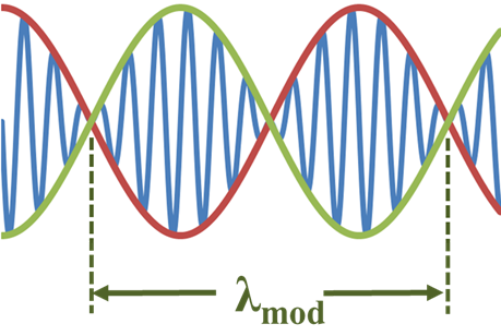 A modulated wave formed by superposing two sinusoidal waves with almost the same wavelength. λmod is the modulation wavelength.